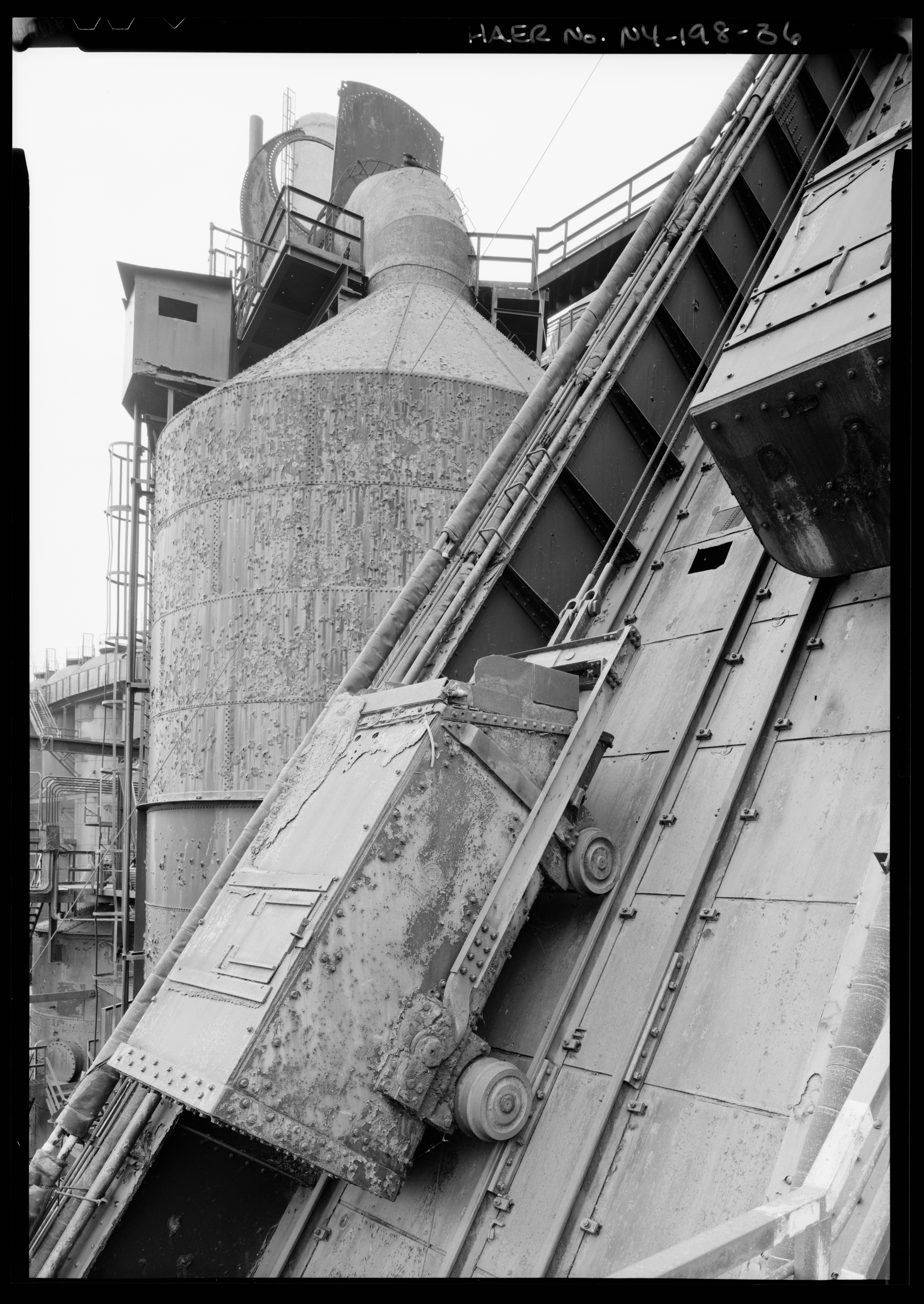 Bethlehem Steel Corporation, Lackawana Facility, skip tub on a blast furnace